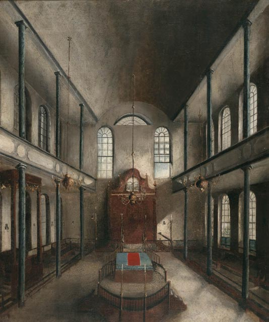 Painting of the inside of the first Kahal Kadosh Beth Elohim Synagogue which was destroyed in the great fire of Charleston of 1838.